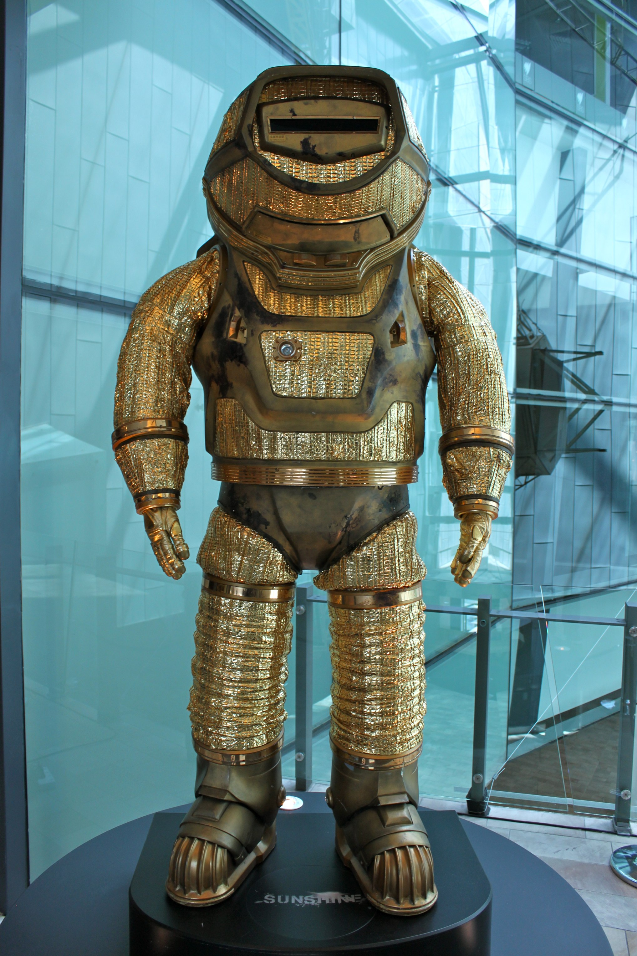 The "Kenny" space suit from the film Sunshine (2007) displayed at the Australian Centre for the Moving Image, Melbourne, Australia.